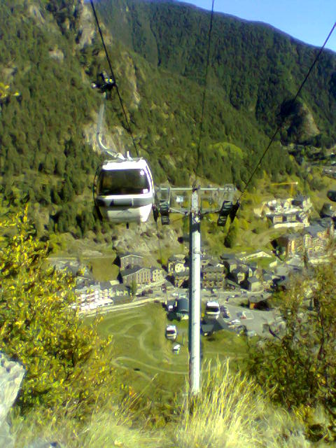 This is a phone camera picture taken in Oct 2005 from the road above Arinsal, Andorra, looking down along the cable car over the village of Arinsal. The cable car station is located centrally and you can see the main road below. The cable car was not operating at the time as it was outside the ski season.